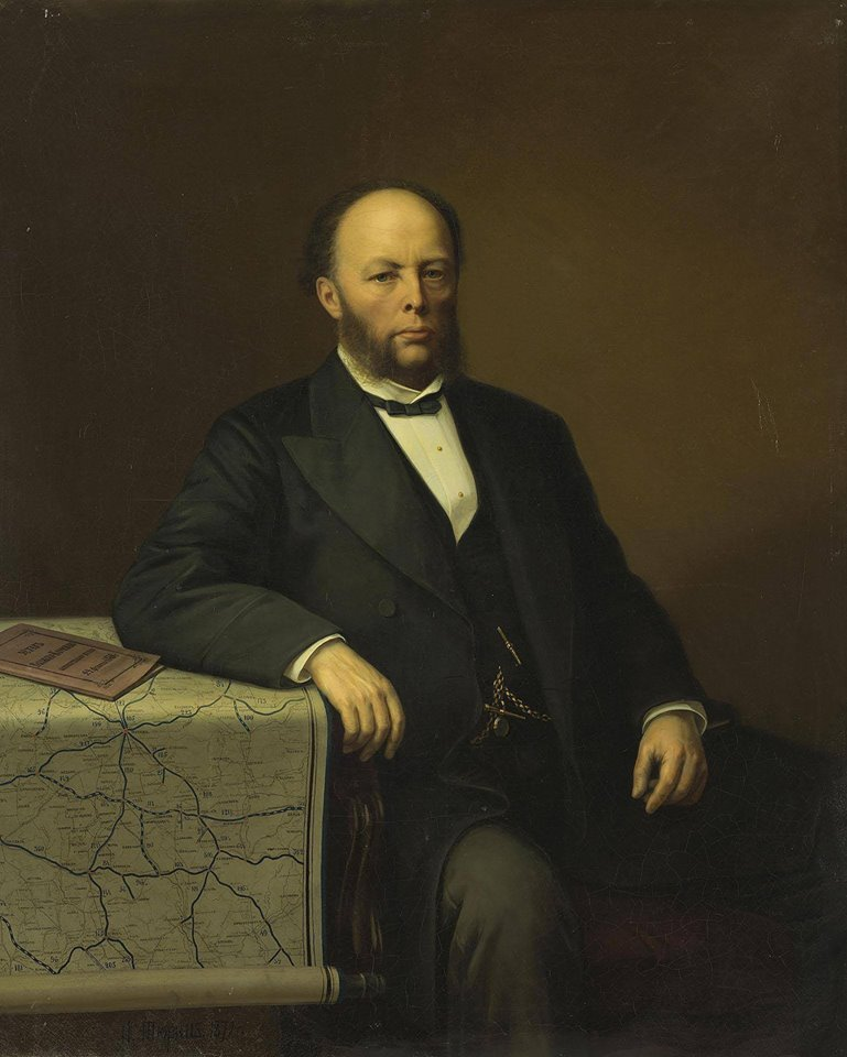 Reutern Mikhail Christoforovich